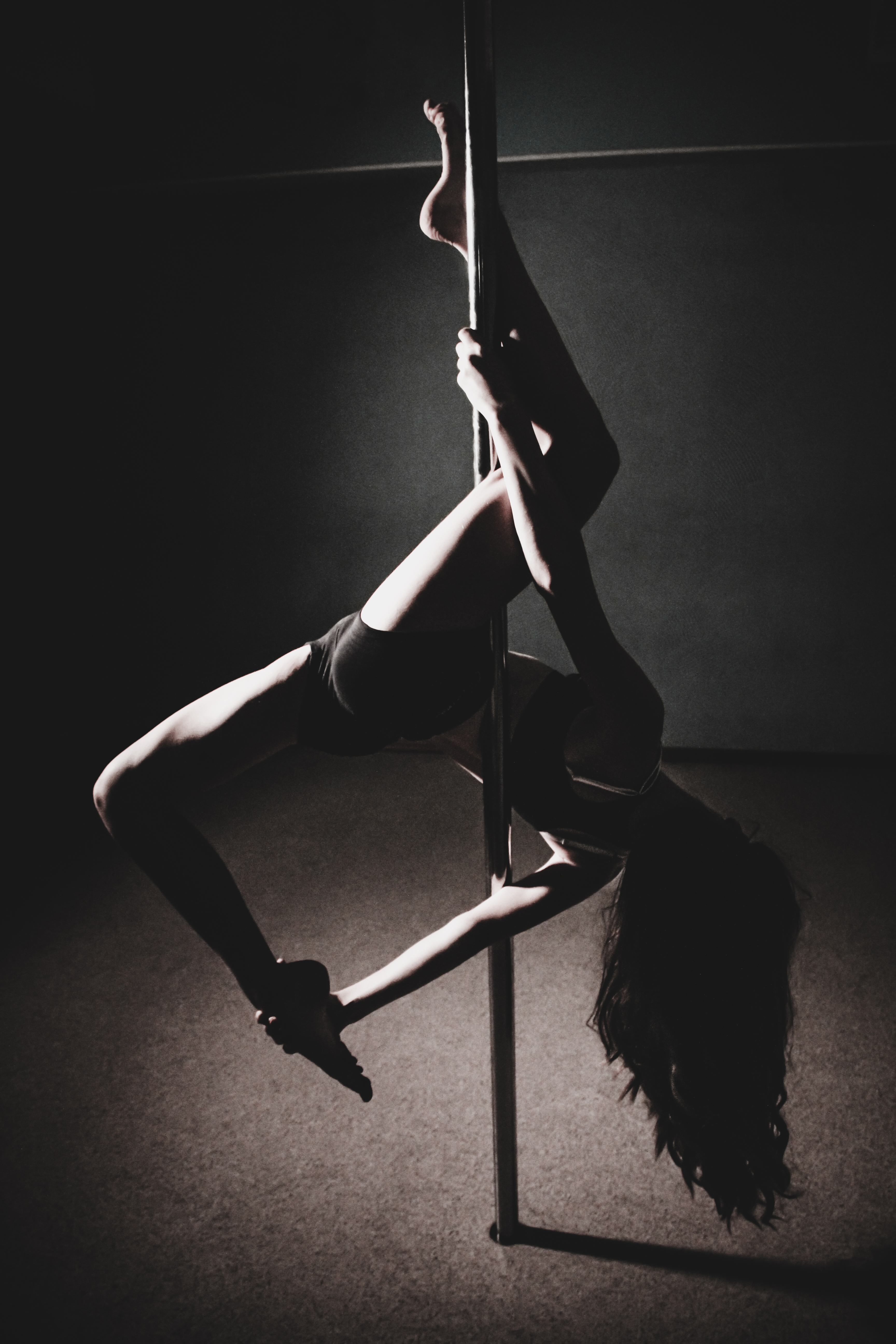 Pole dancing in Barnaul, Altai Krai, Russia, by Alex Troshenkov.